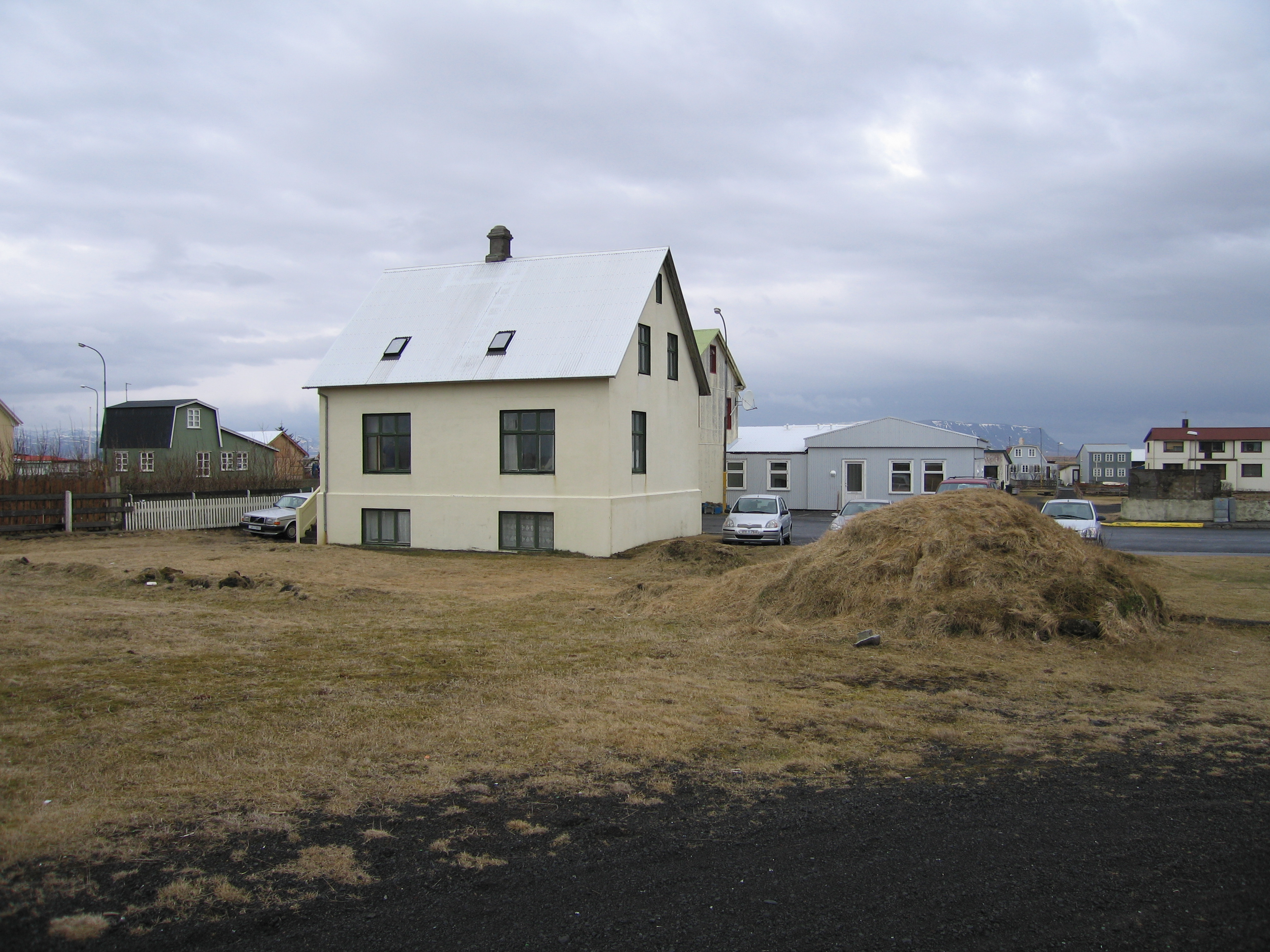 The Medical Doctor's House built 1916 at Eyrarbakki.